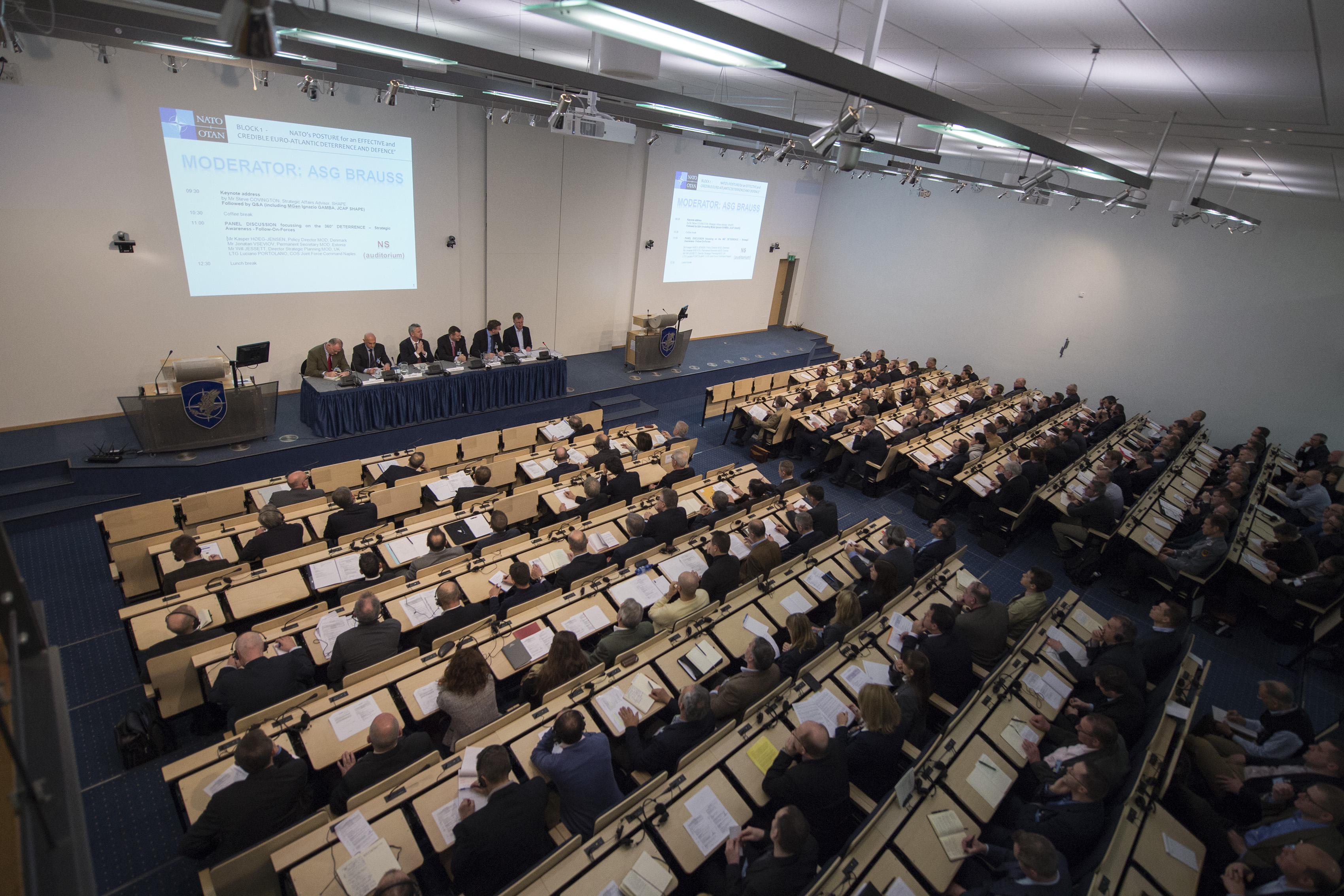 Manfred Woerner Hall